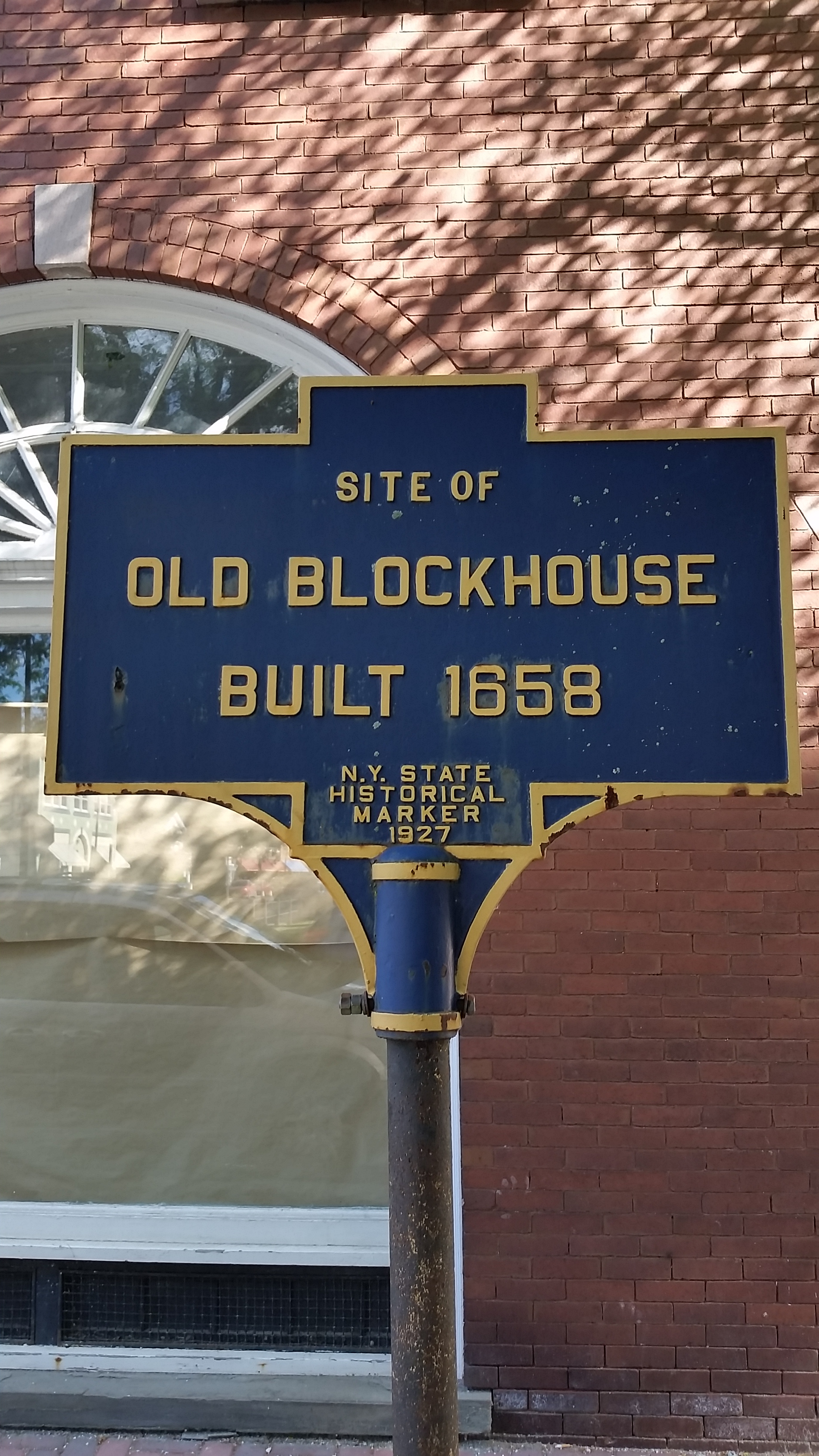 New York State historical marker for the old Blockhouse in Kingston, NY